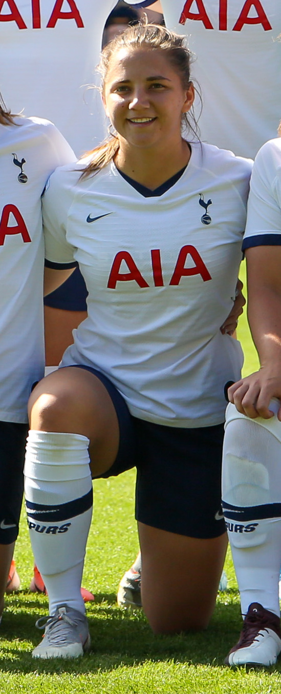 2019–20 FA WSL: Tottenham Hotspur FC Women v Liverpool FC Women, 15 September 2019 – Tottenham Hotspur starting line-up.